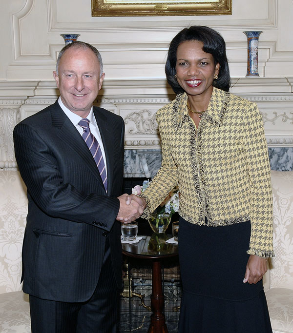 Dermot Ahern and Condoleezza Rice.